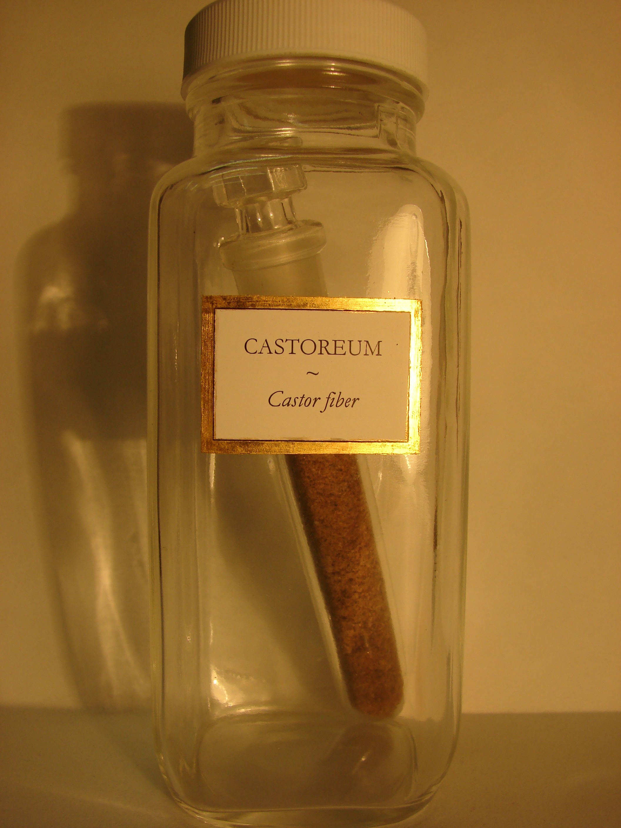 Castoreum, Castor fiber